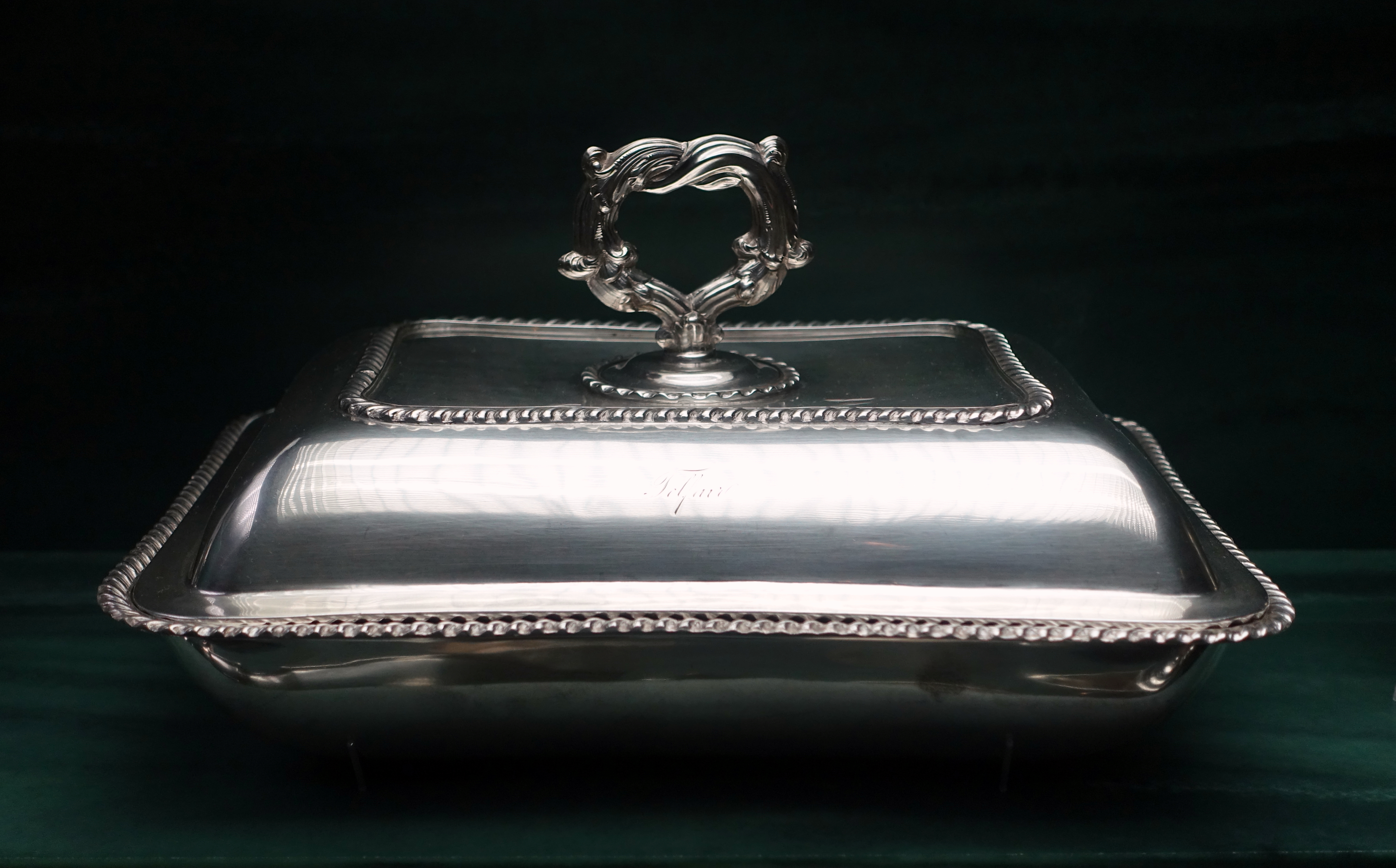 Exhibit in the Fowler Museum - University of California, Los Angeles - Los Angeles, California, USA.